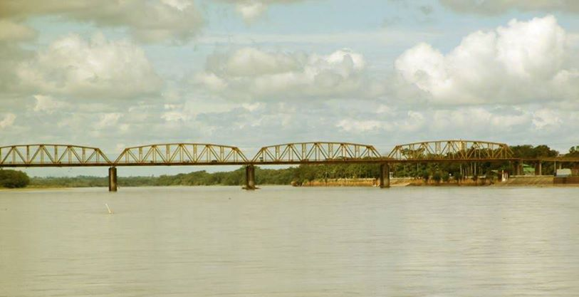 Dorada Caldas